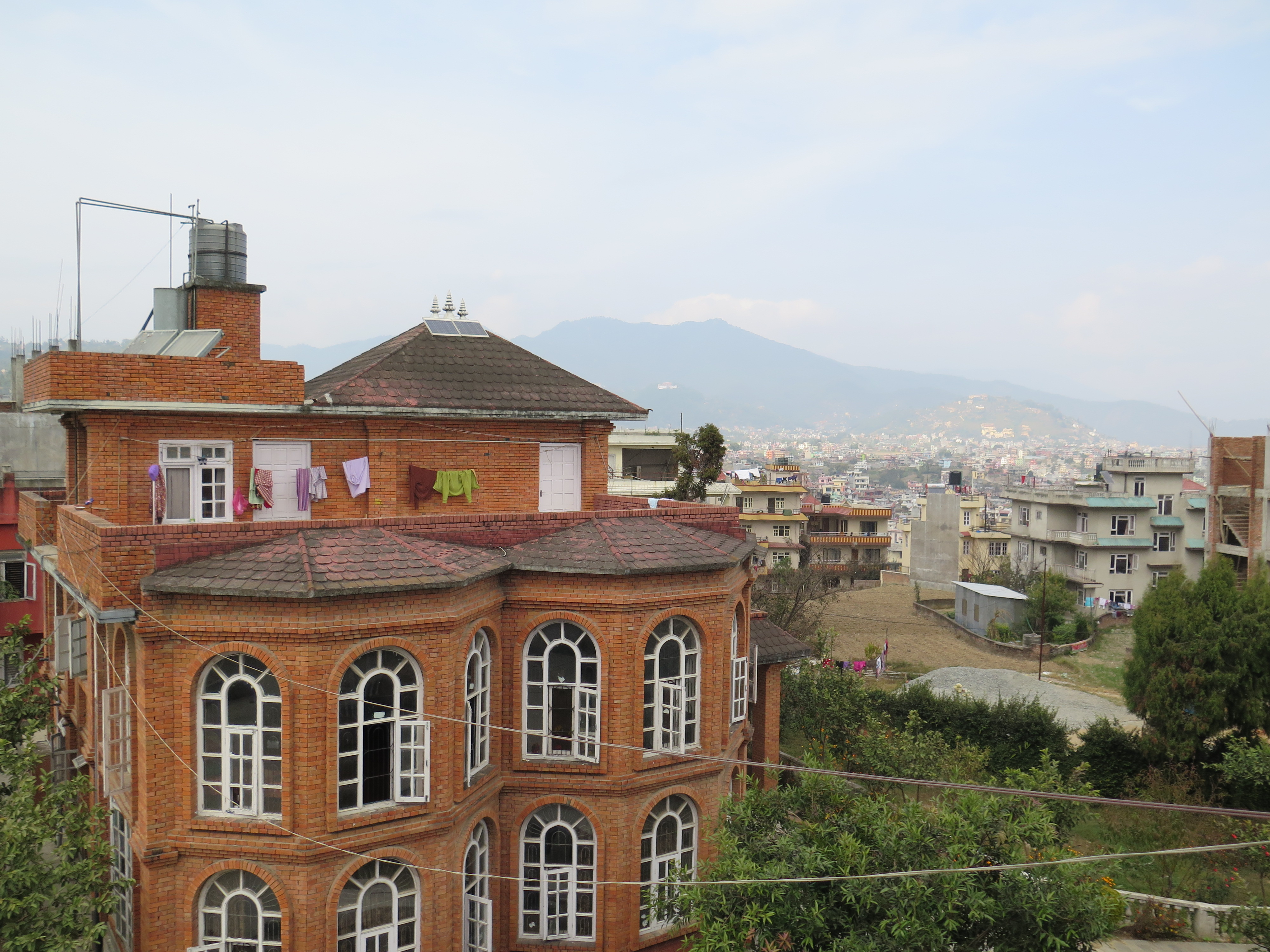 CWIN Child Help Line headquarter